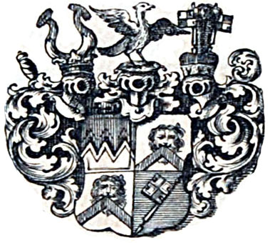 Coat of Arms Megingaud von Würzburg 710-783